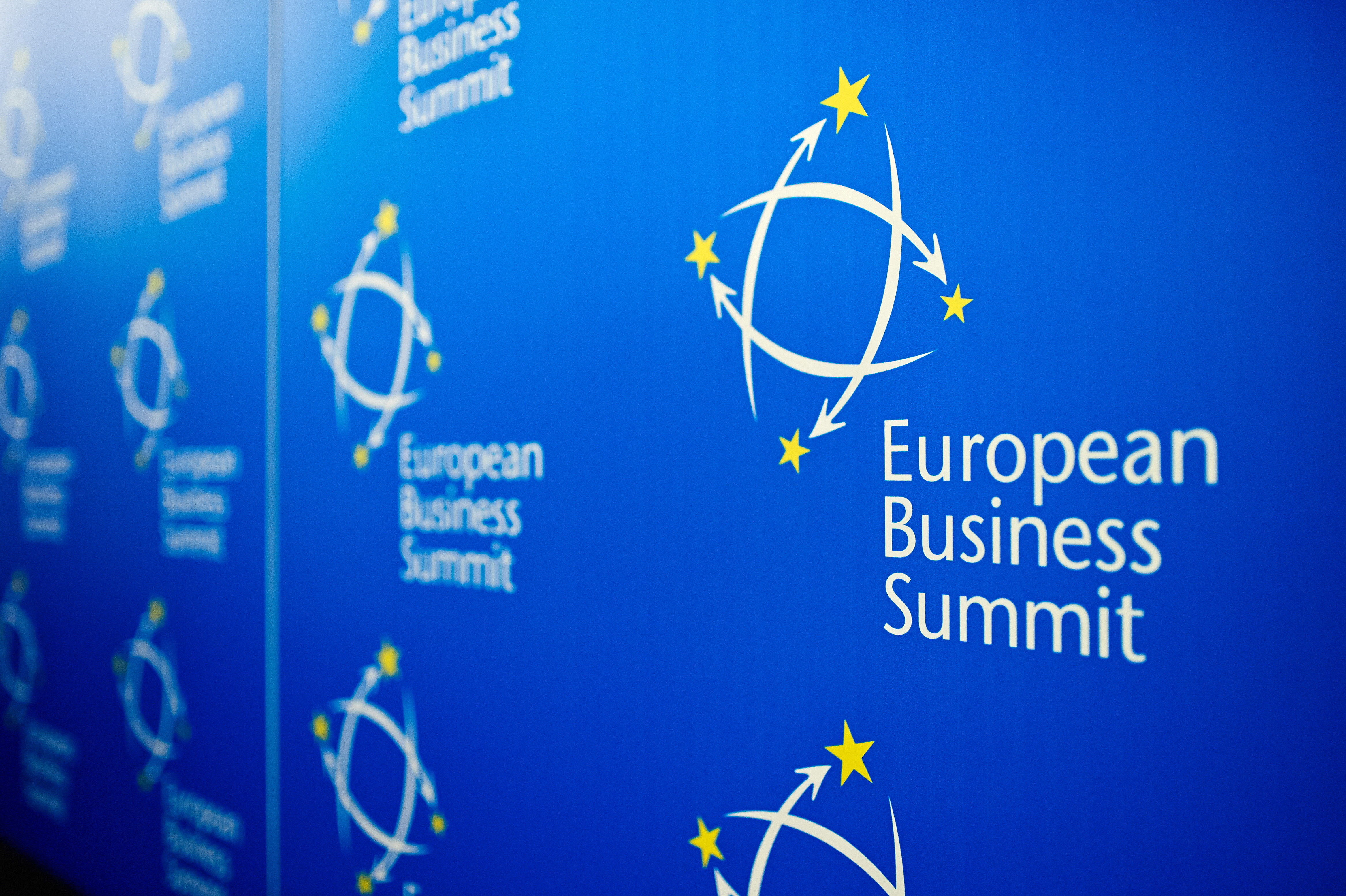 Wall European Business Summit